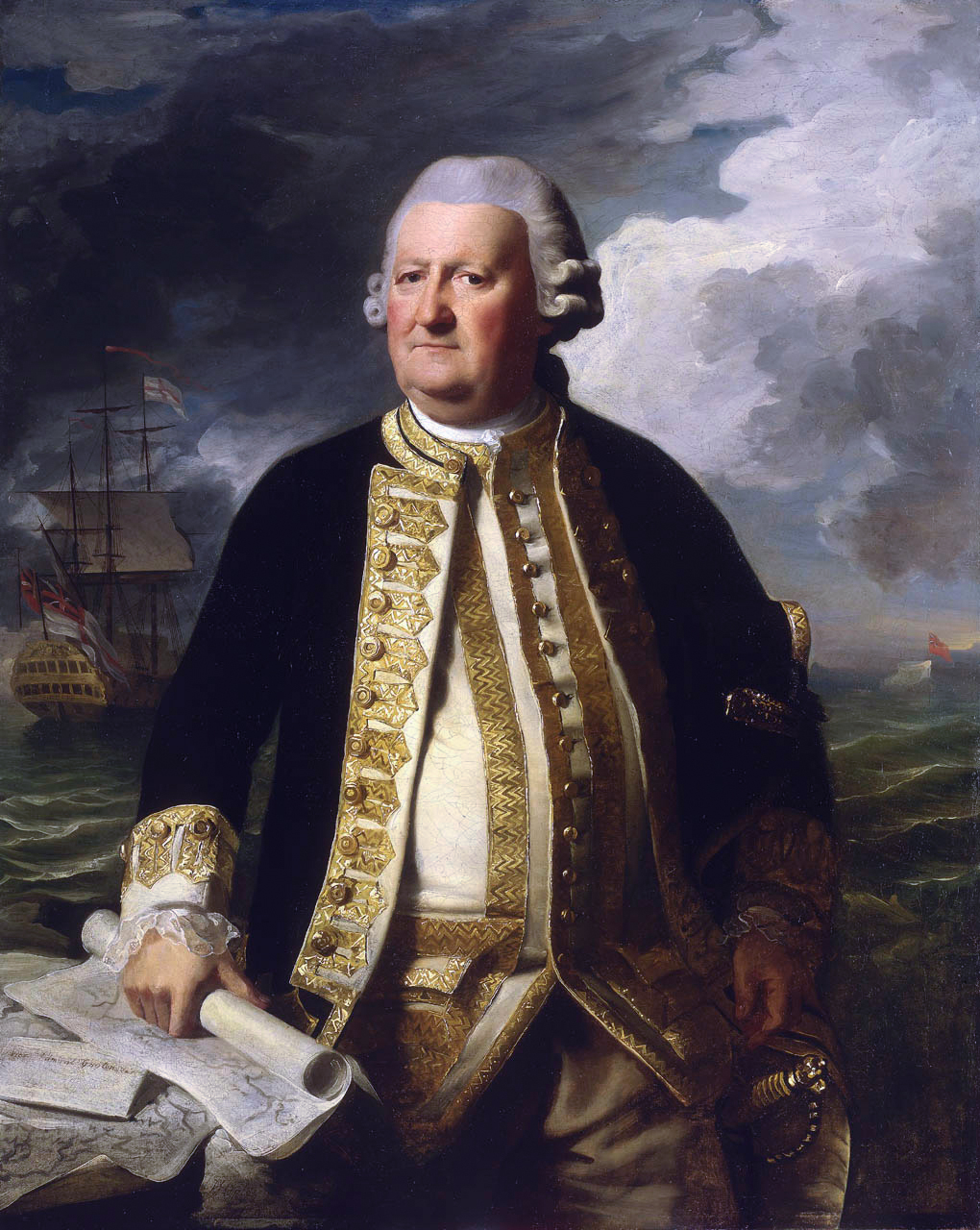 Admiral Clark Gayton (1712 - ca. 1785) oil on canvas 127 x 101.8 cm 1779